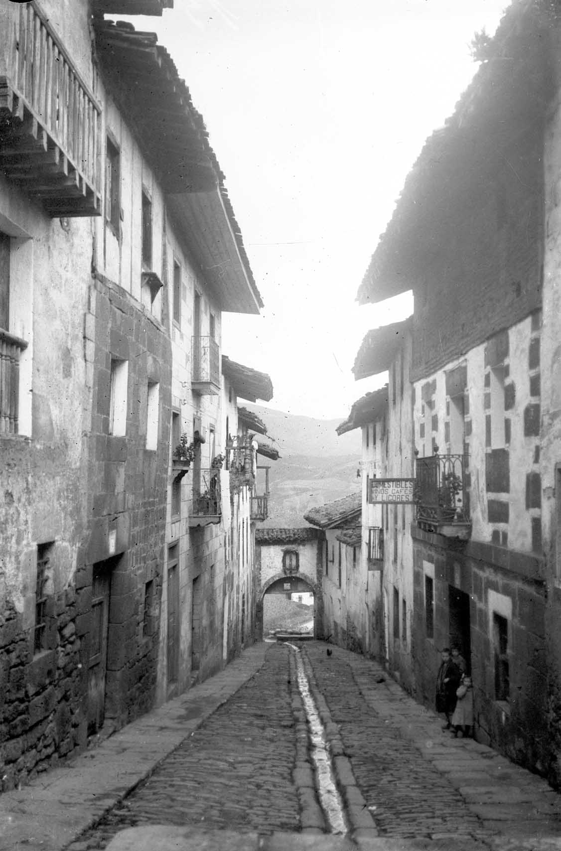 Street in Salinas de Léniz / Leintz Gatzaga, Gipuzkoa, Basque Country, Spain.